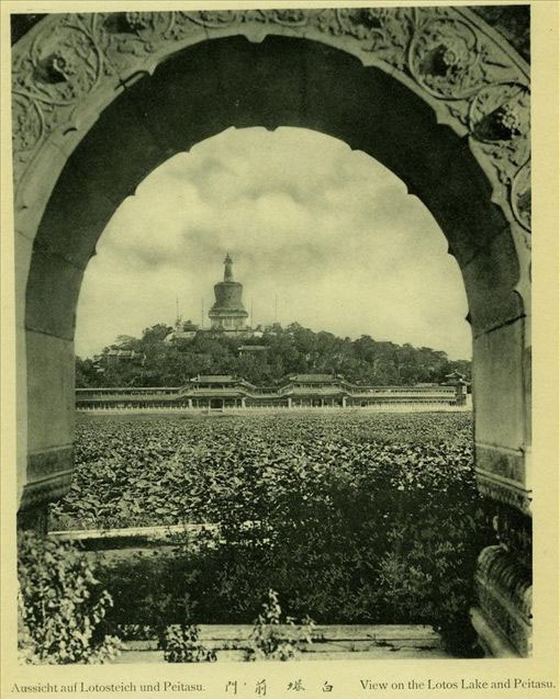 old photo from China 1900-1903, see the file's name for detail.